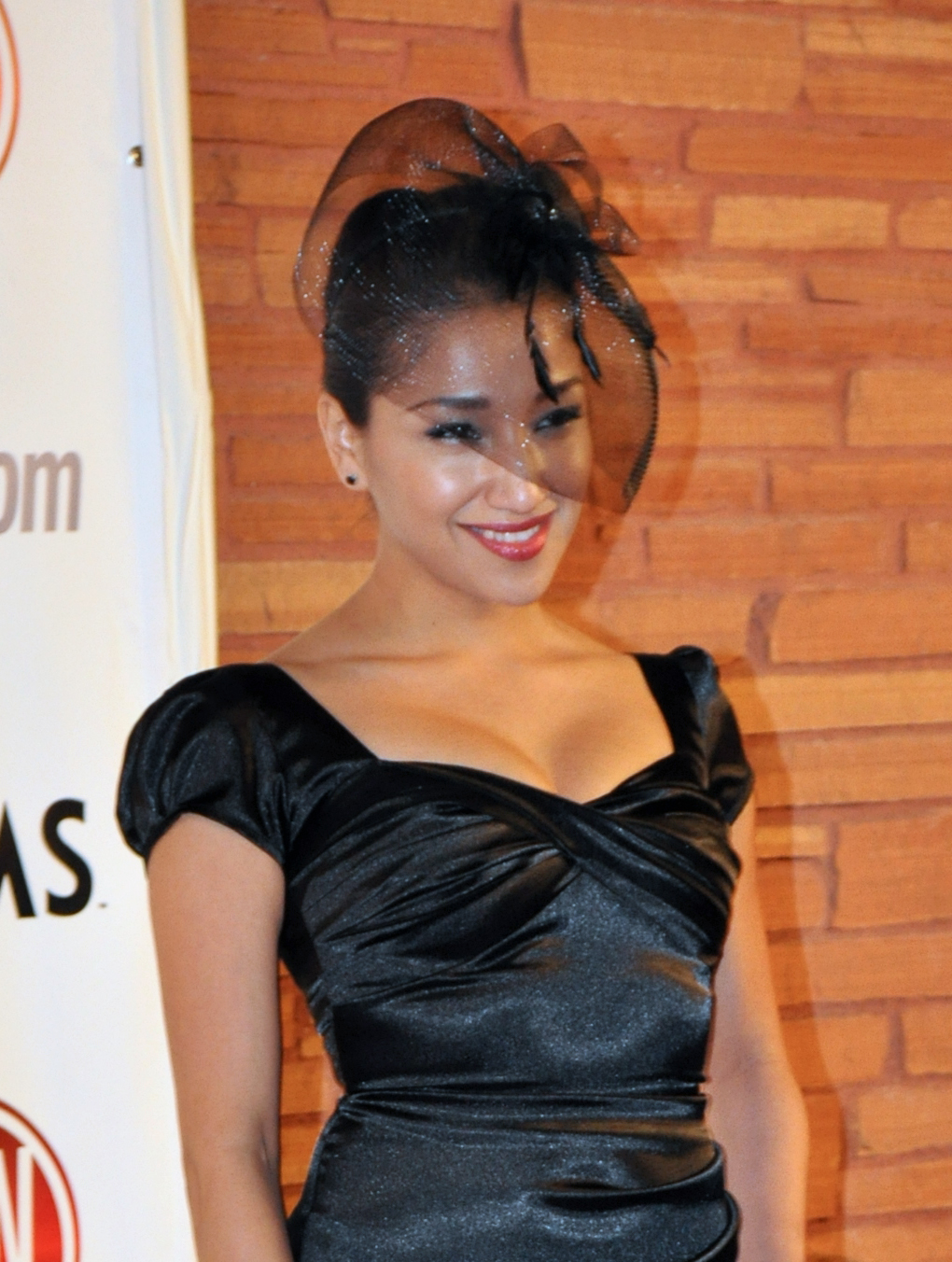 Vicki Chase at the 2011 AVN Awards.